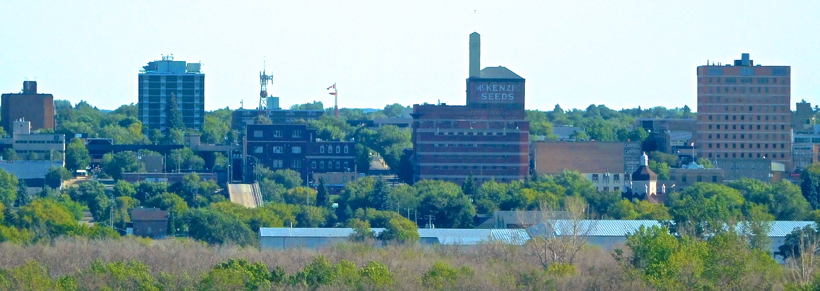 Brandon, Manitoba skyline